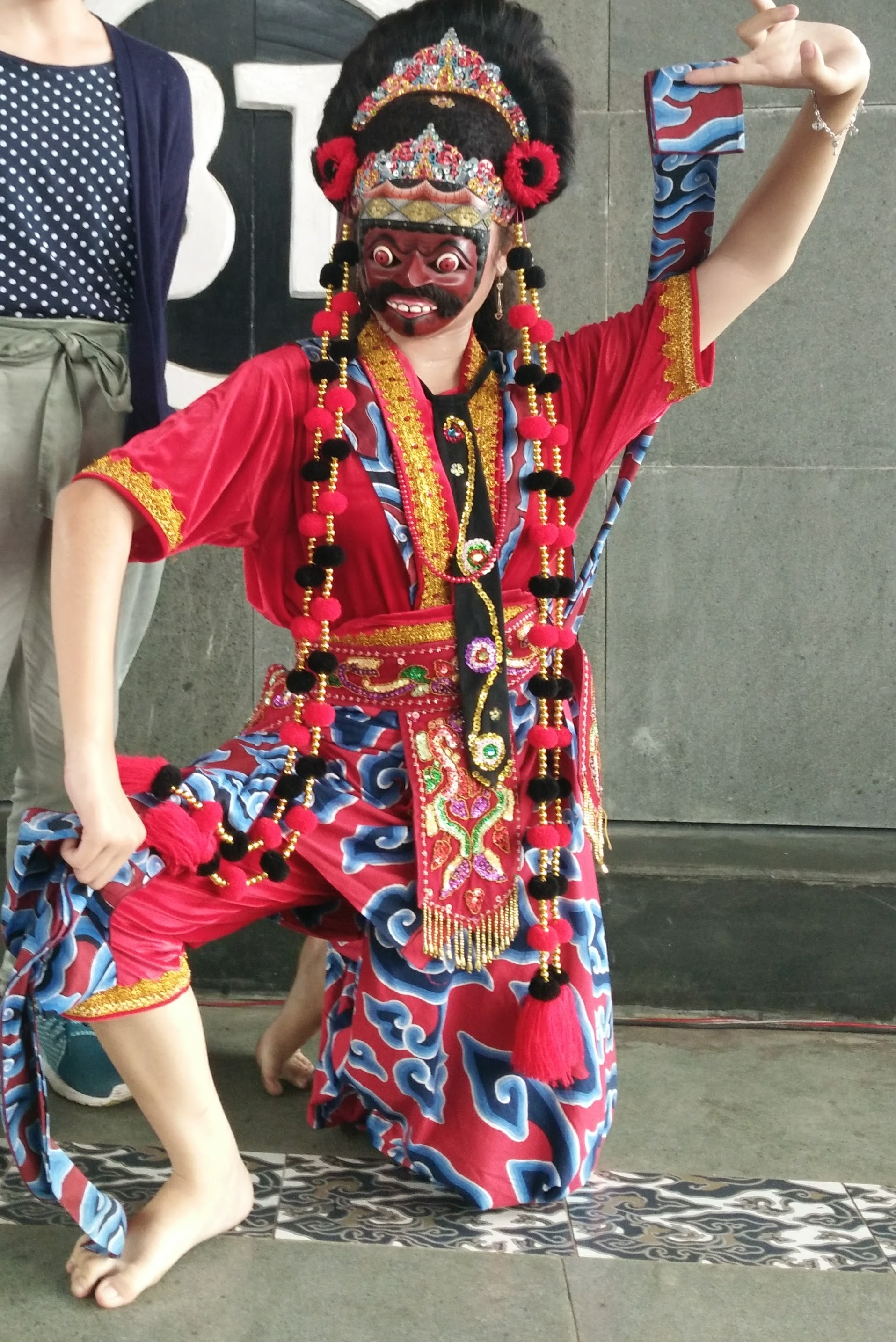 tari topeng Jawa: ꦠꦫꦶꦠꦺꦴꦥꦺꦁꦕꦶꦫꦼꦧꦺꦴꦤꦤꦤ꧀Bahasa Indonesia: tari topeng Cirebonan